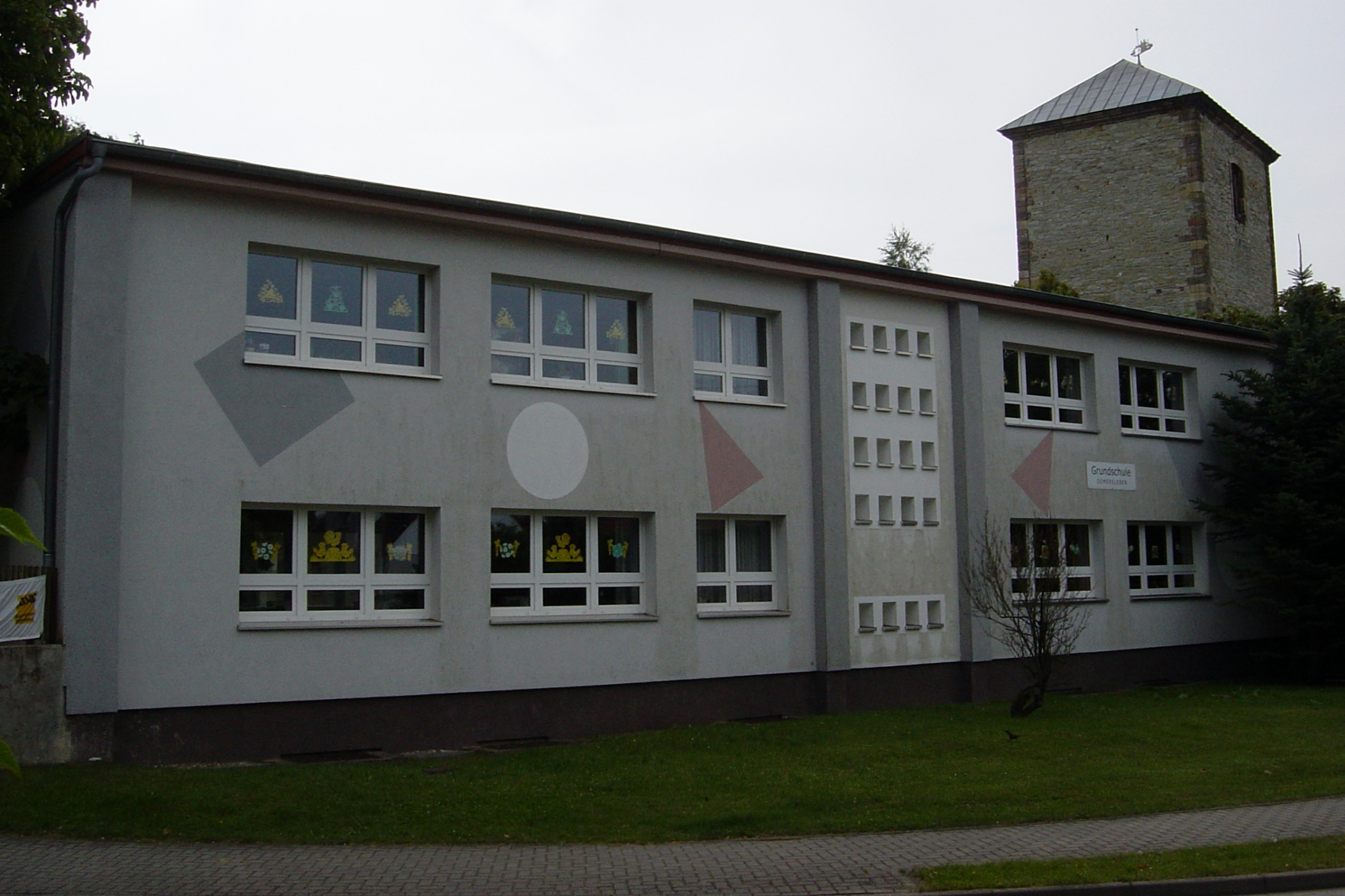 Elementary school "Martin Selber" in Domersleben, Saxony-Anhalt, Germany